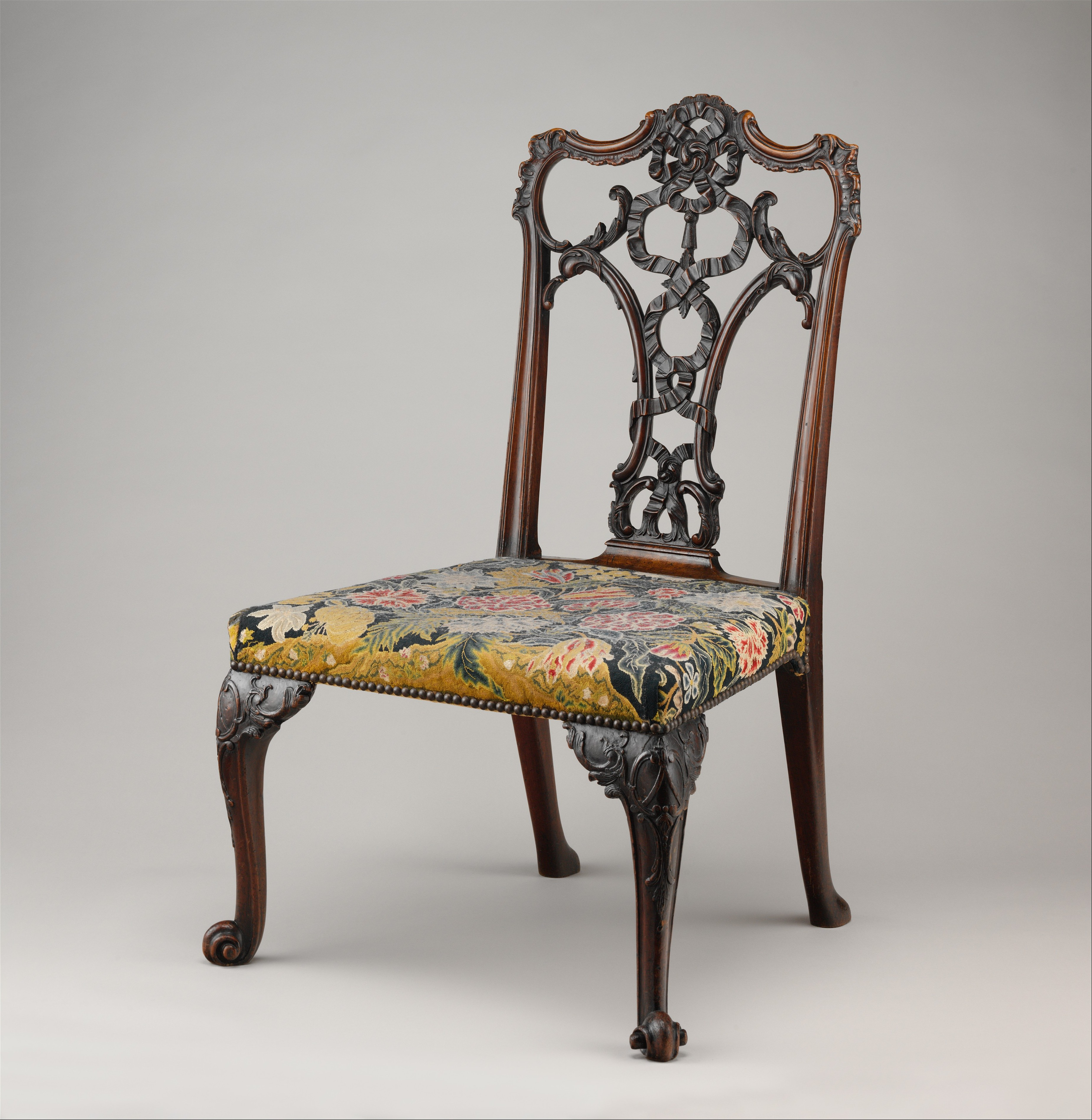 British; Side chairs; Woodwork-Furniture